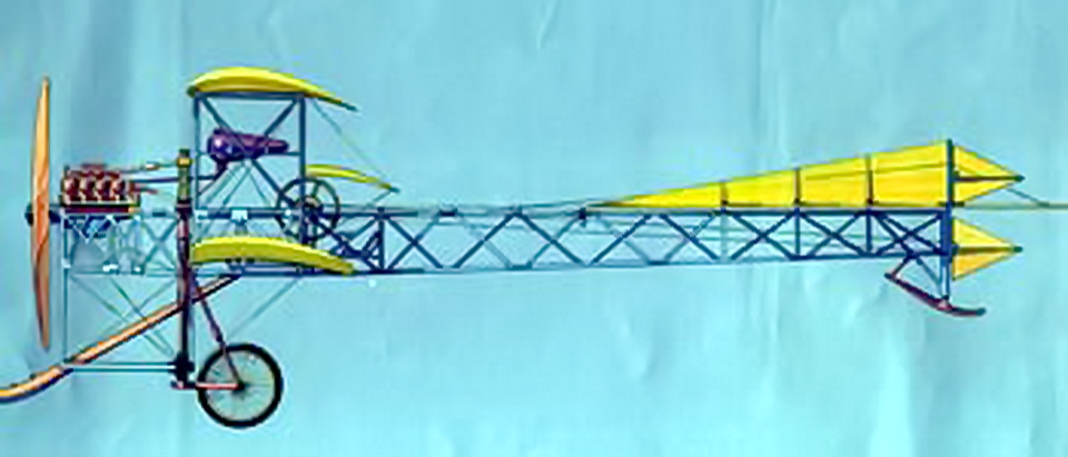 Biplane Dufaux 4 constructed by Armand Dufaux (1883-1941) and Henri Dufaux (1879-1980).